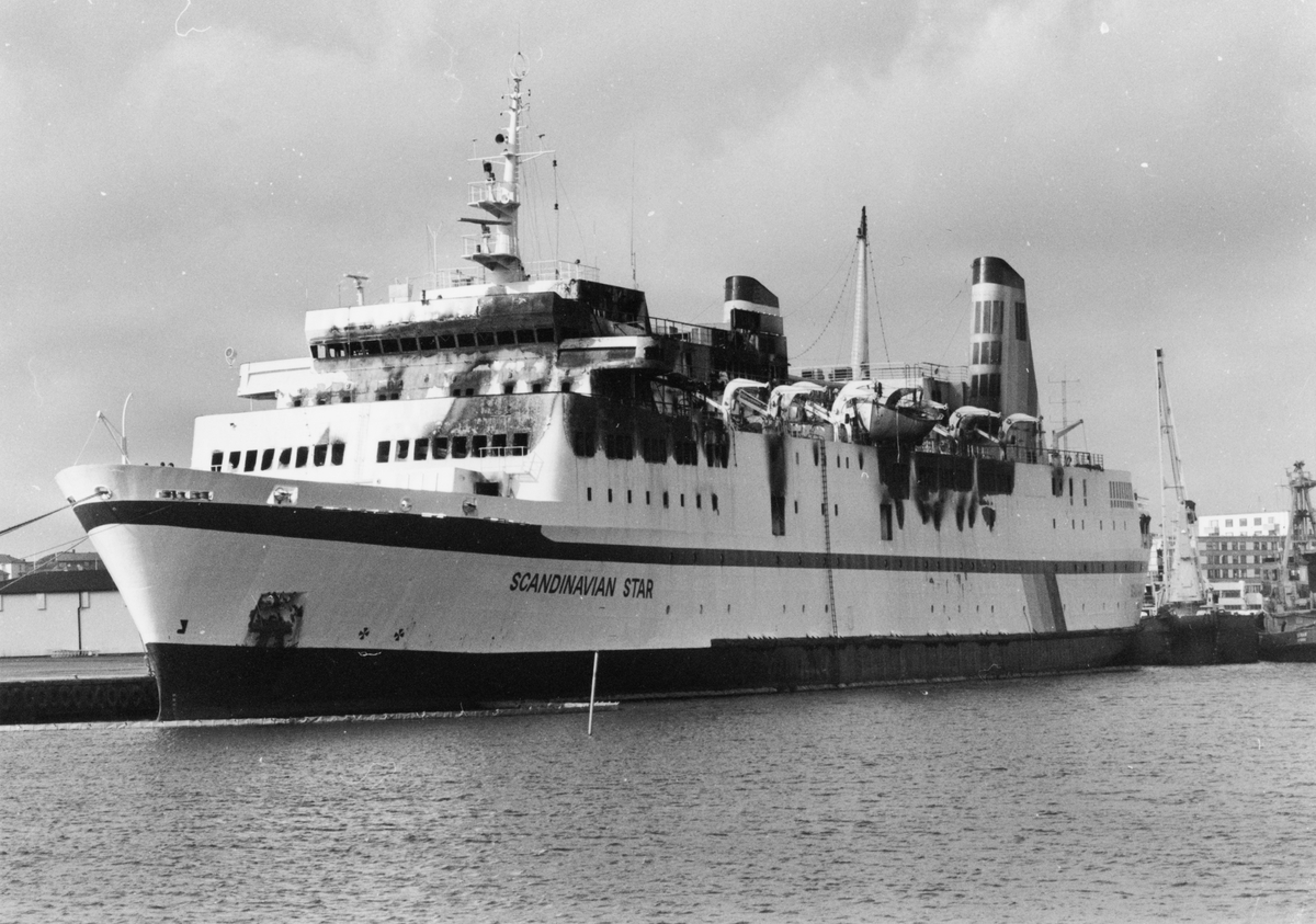 Cruiseferry MS Scandinavian Star in Lysekil harbour, Sweden. It was towed to Lysekil after a fire broke out during a cruise between Oslo, Norway and Fredrikshavn, Denmark, 7 April 1990. 157 passengers and two crewmembers lost their lives in the fire. Fo148256AF